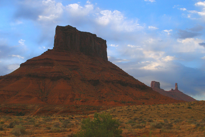 Castle Valley, Utah rock formations near Moab, Utah, USA in morning twilight. Left-to-right: The Convent, the Rectory and Castle Rock (or Castleton Tower).